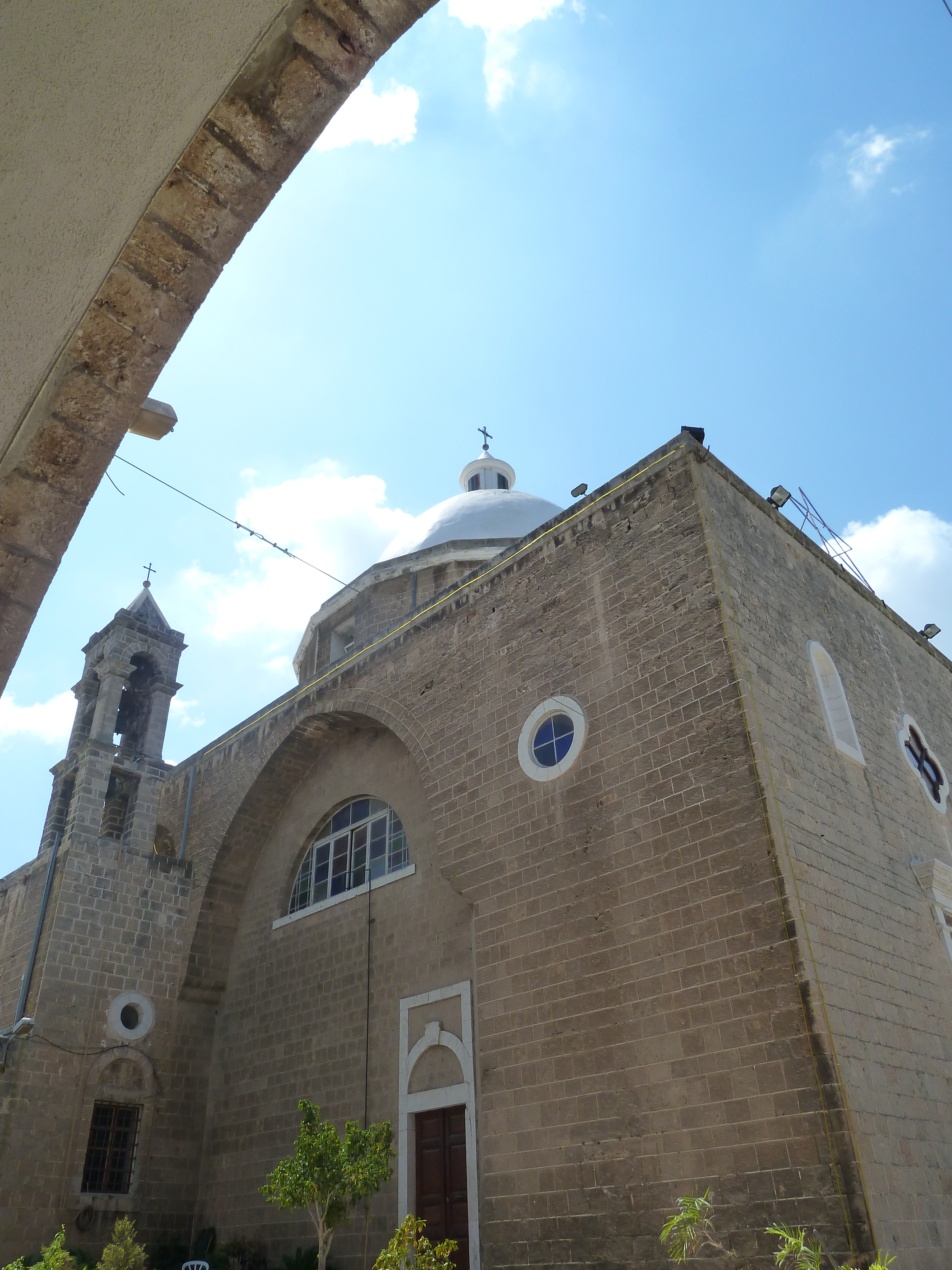 Maronite Church St. Louis, Downtown, Haifa